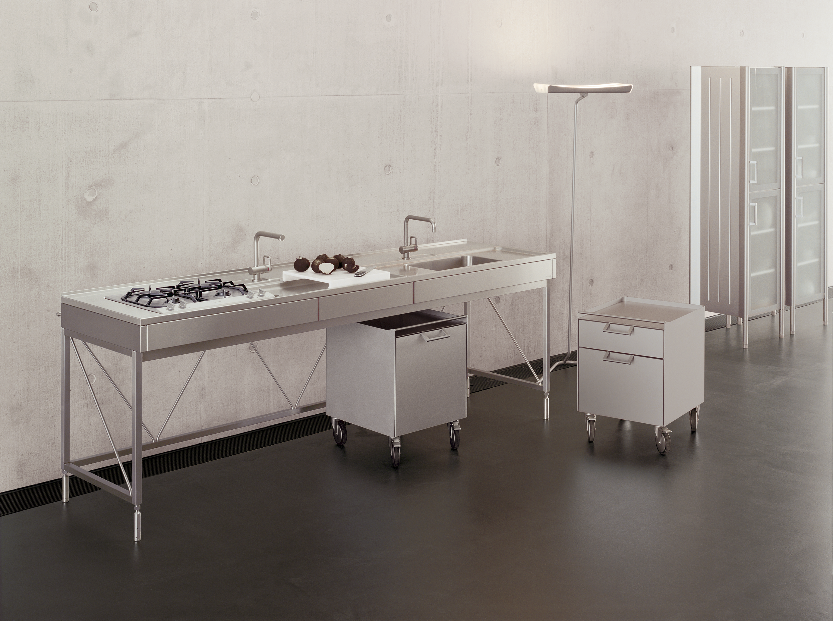 bulthaup kitchen work bench